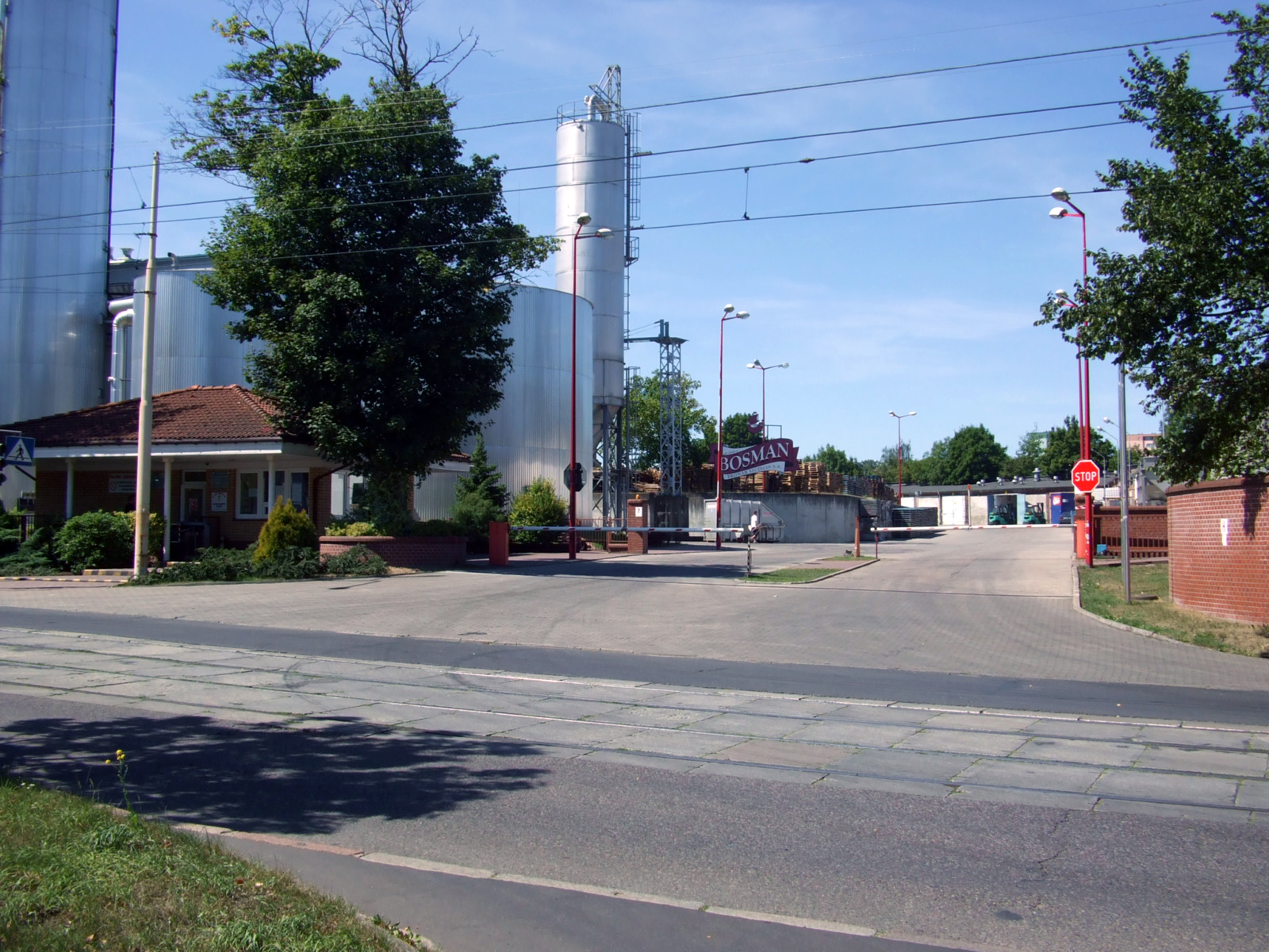 "Bosman" Brewery in Szczecin